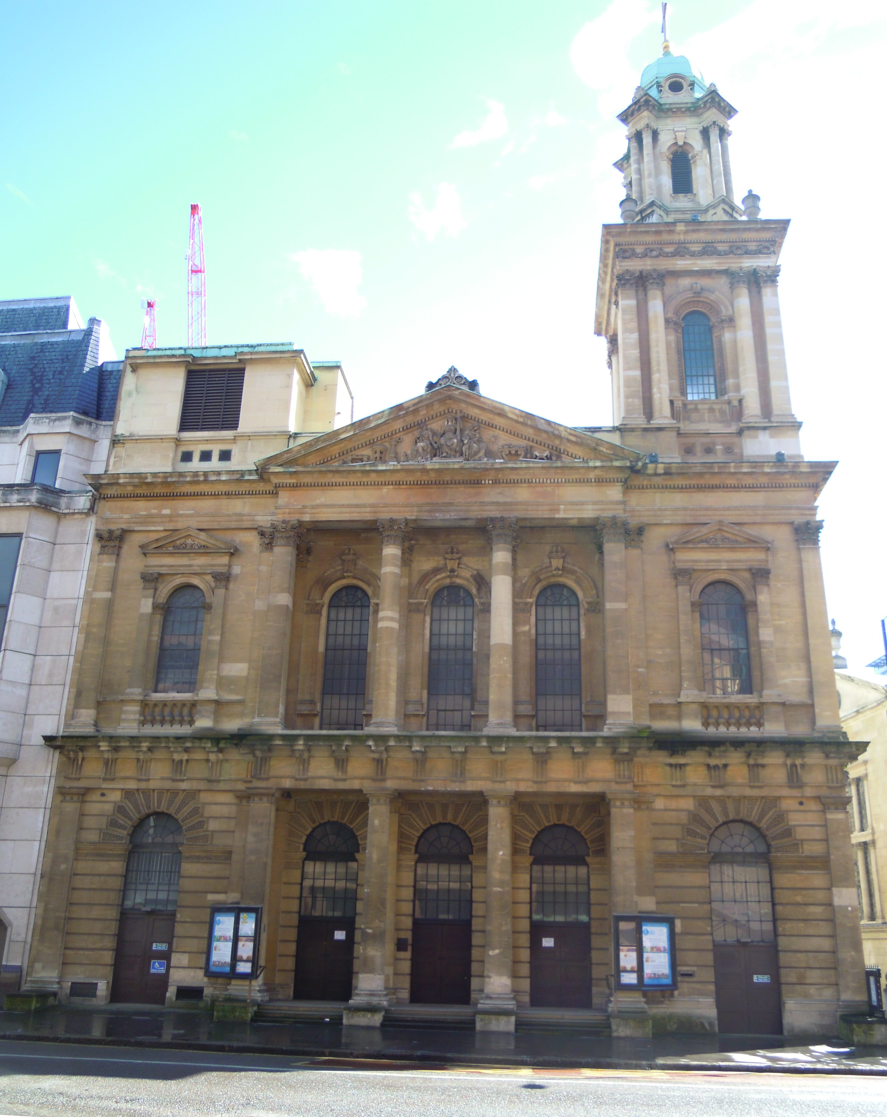 Photograph of the City Temple in Holborn in London